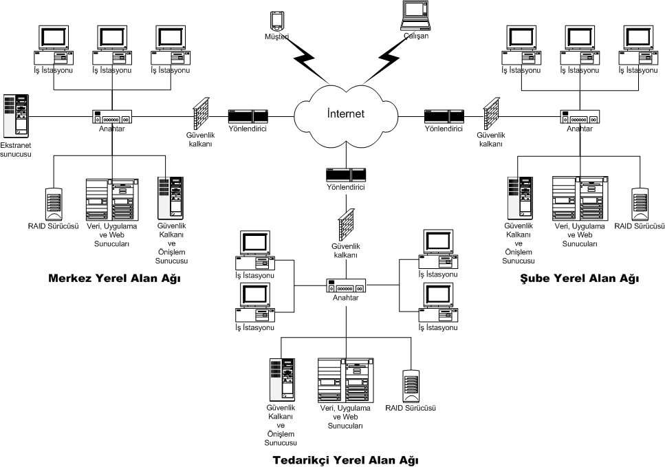 This file schematically depicts an extranet architecture.